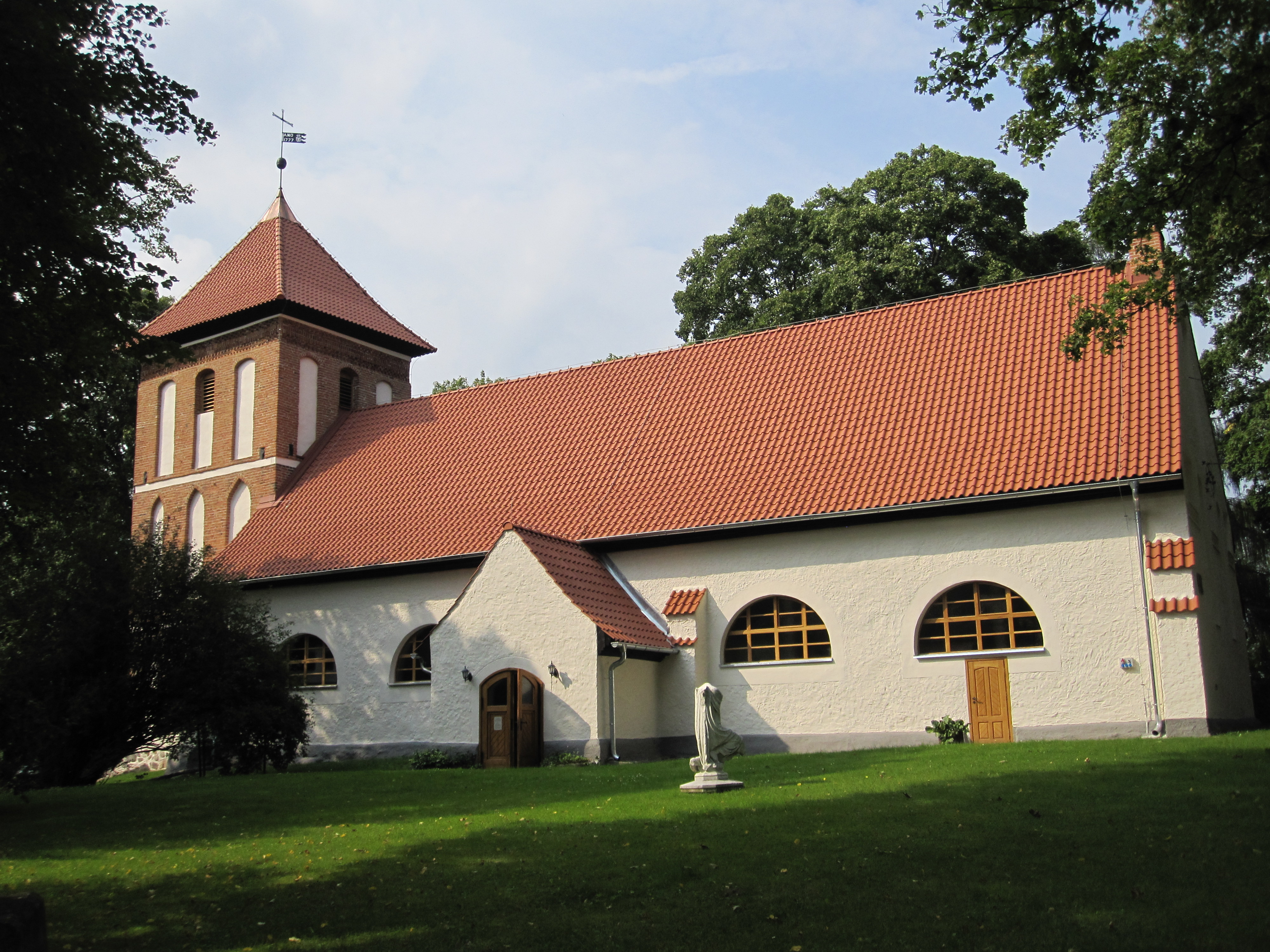 Lutheran church in Sorkwity